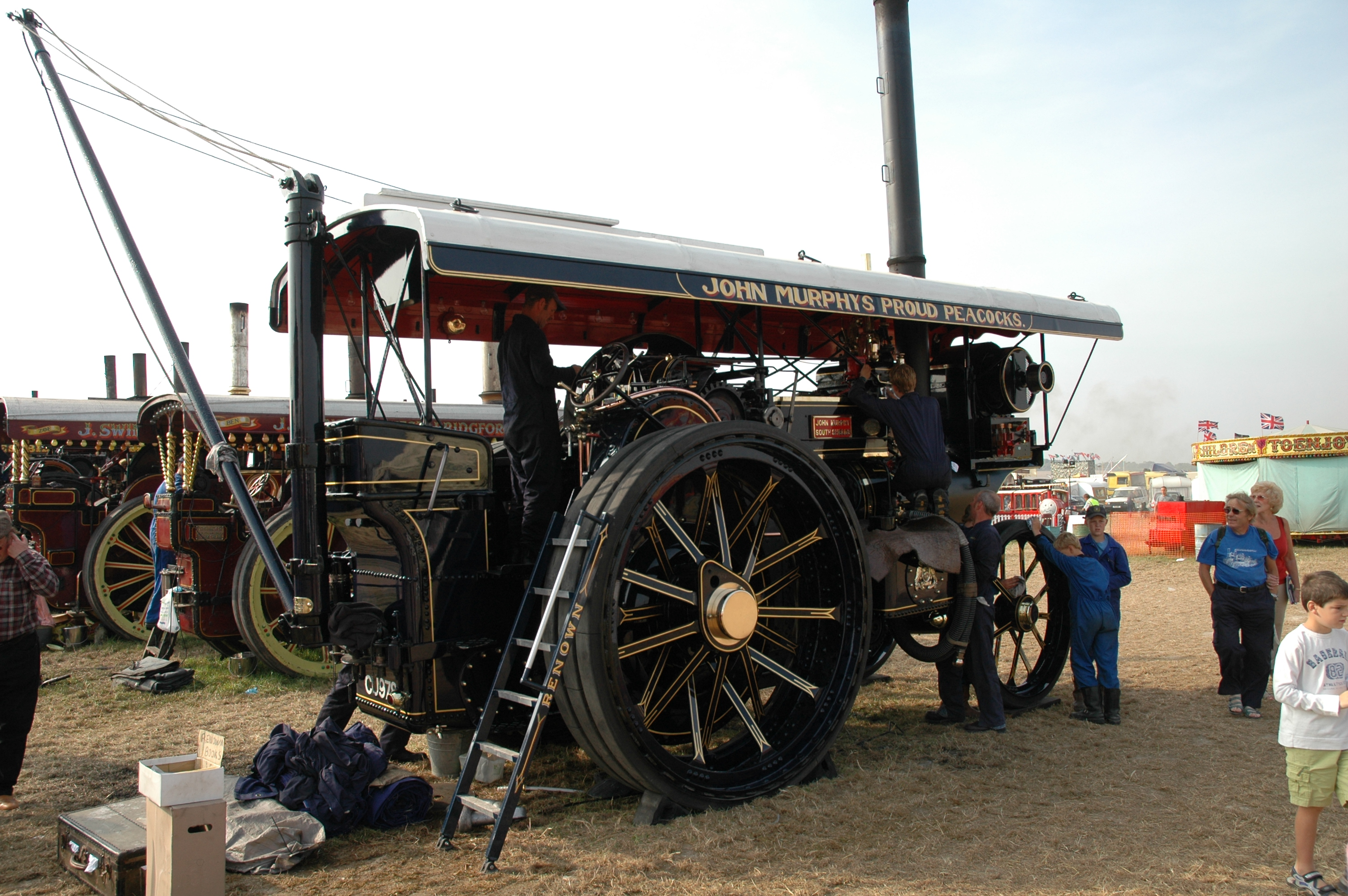 Fowler Showman's road locomotive no. 15653 - "Renown" registration no. "CU 978" built in 1920 for Showman John Murphy of Newcastle.